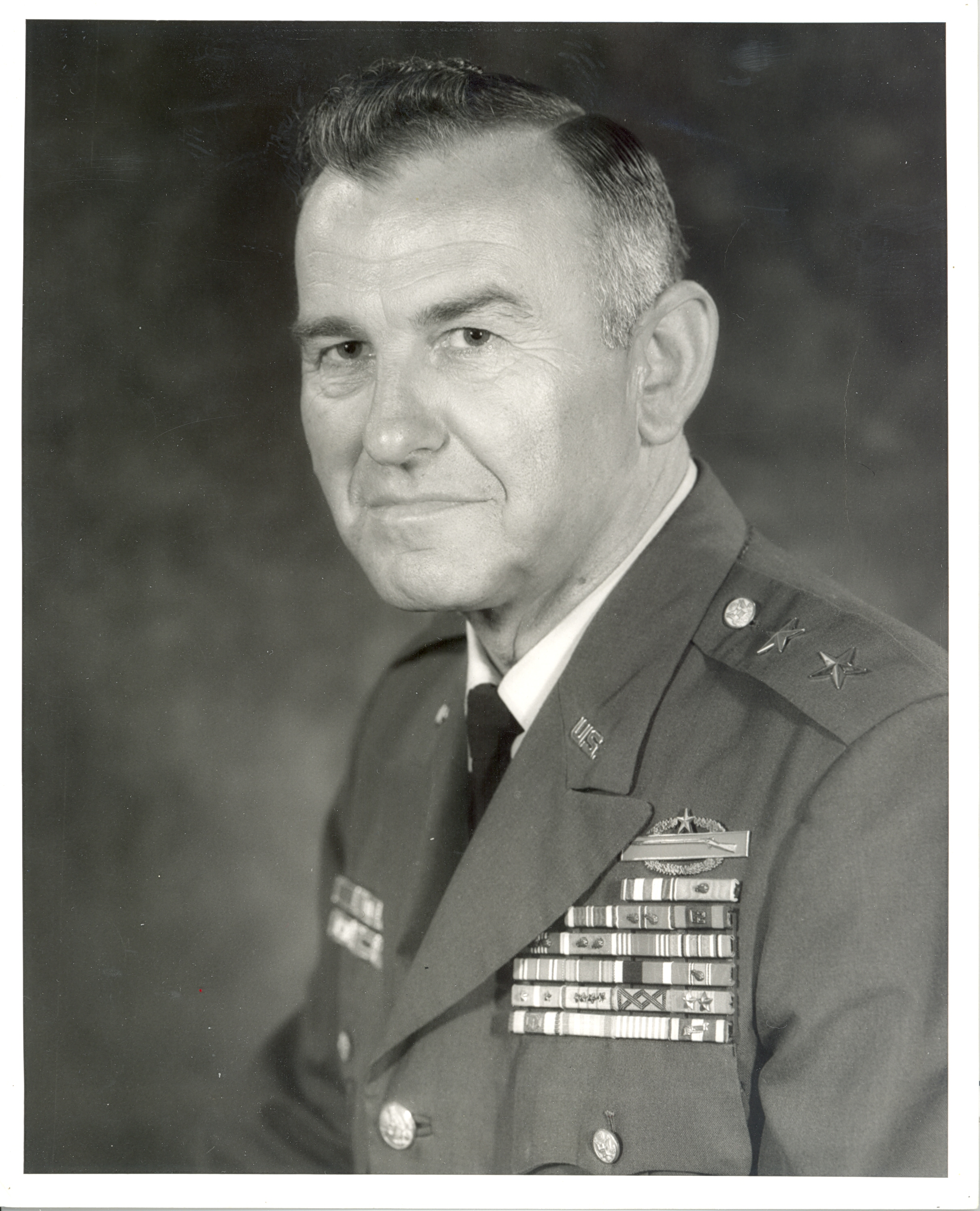 Unit photo taken shortly after being promoted to MG